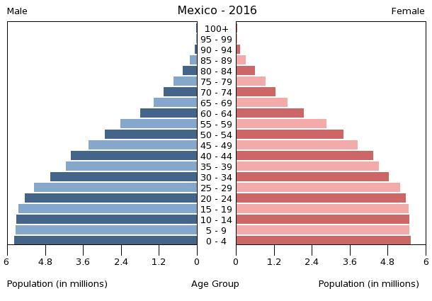 The population pyramid of Mexico illustrates the age and sex structure of population and may provide insights about political and social stability, as well as economic development. The population is distributed along the horizontal axis, with males shown on the left and females on the right. The male and female populations are broken down into 5-year age groups represented as horizontal bars along the vertical axis, with the youngest age groups at the bottom and the oldest at the top. The shape of the population pyramid gradually evolves over time based on fertility, mortality, and international migration trends.